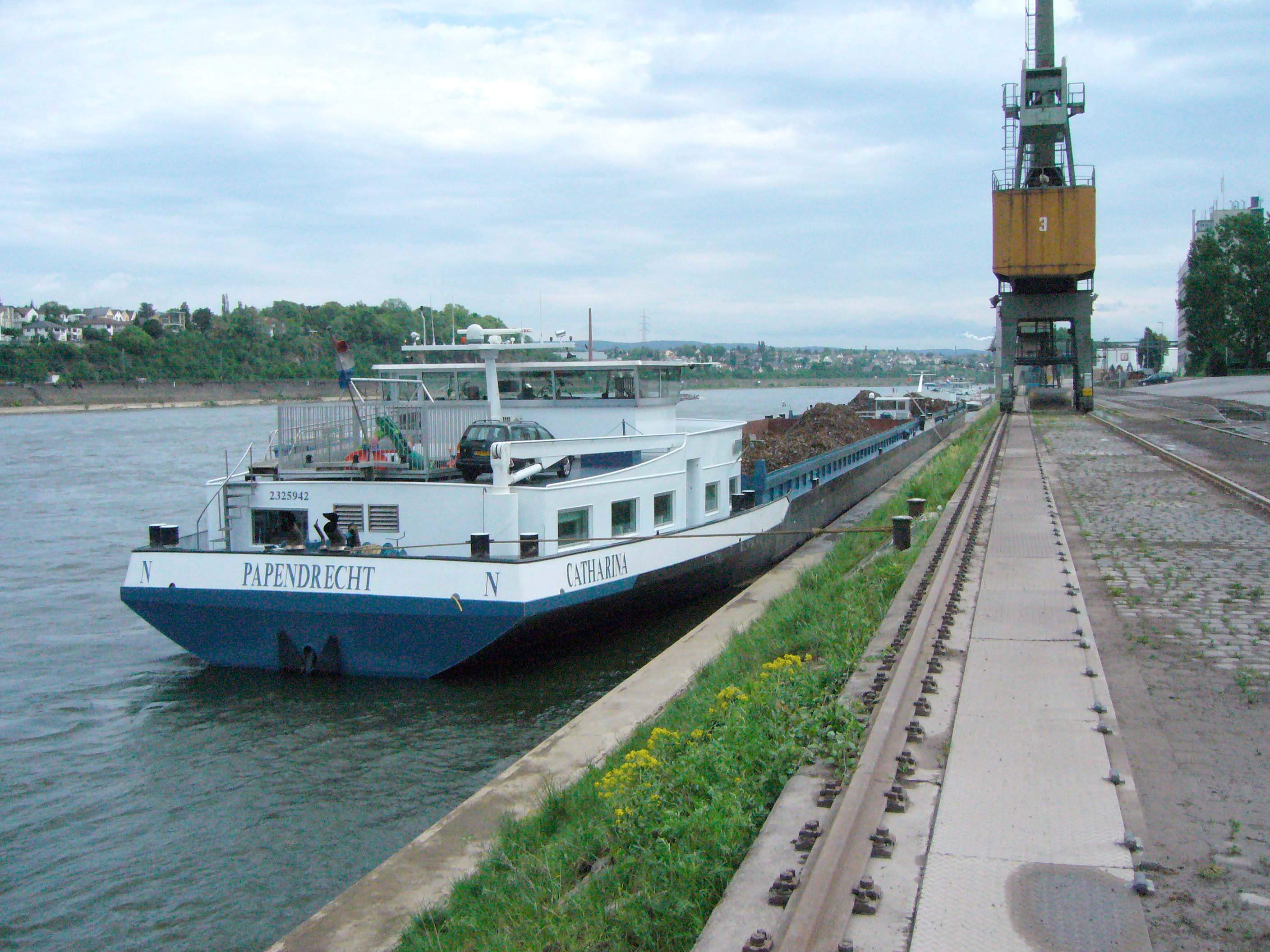 Koppelverband Catharina